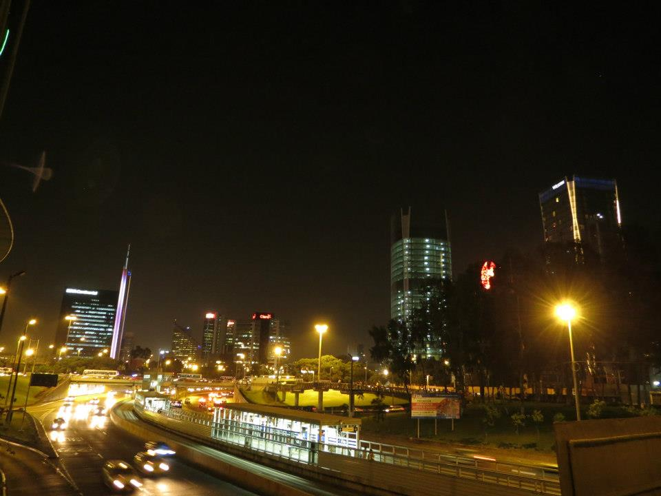 ViaExpresaLima